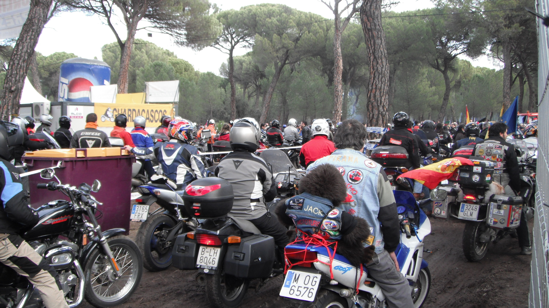 Traditional event in Pingüinos motorcycle meeting in Valladolid (Spain)